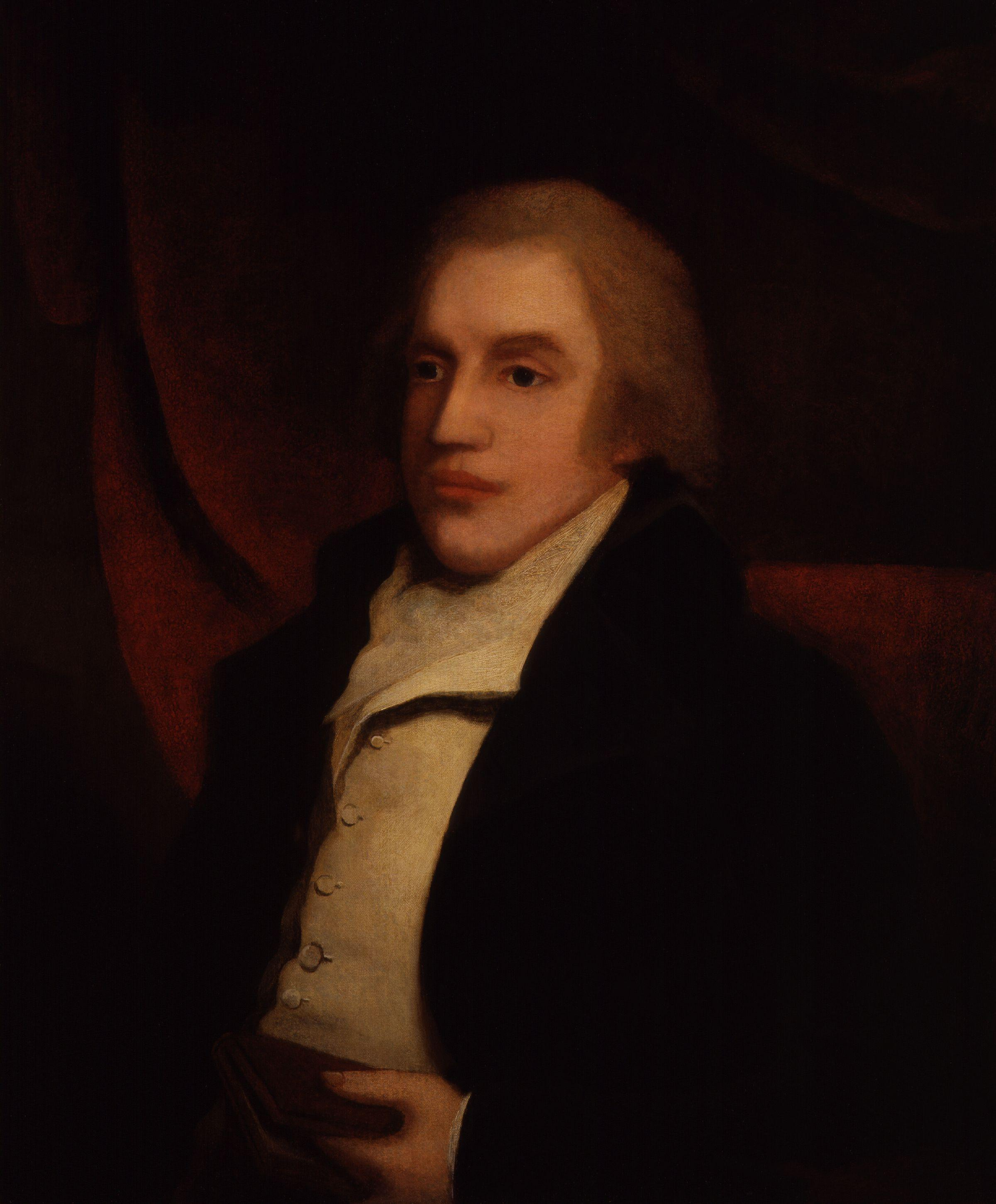 William Gifford, by John Hoppner (died 1810), given to the National Portrait Gallery, London in 1895. All images in this batch have been confirmed as author died before 1939 according to the official death date listed by the NPG.